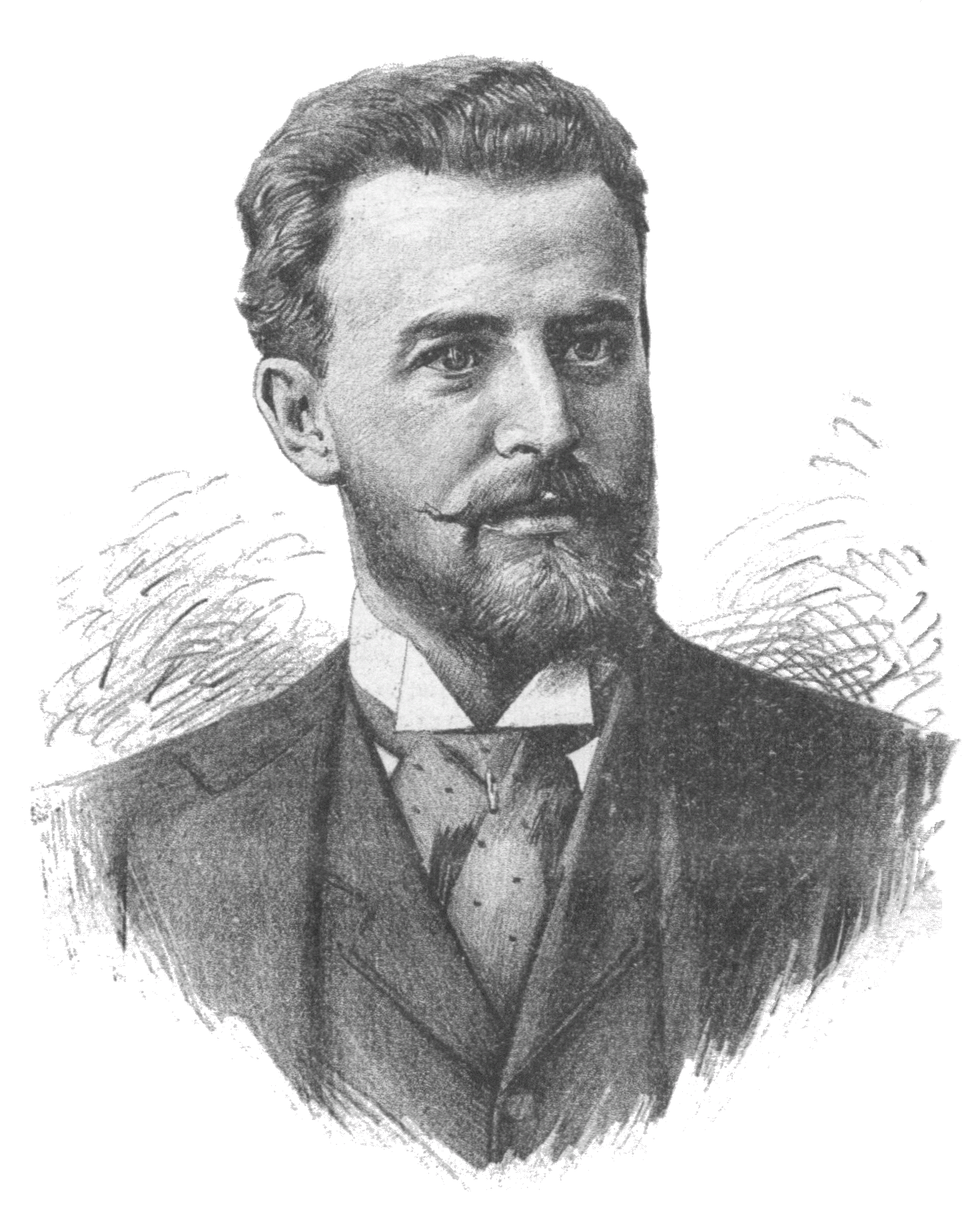 Carl Weinberger (1861-1939), Austrian composer